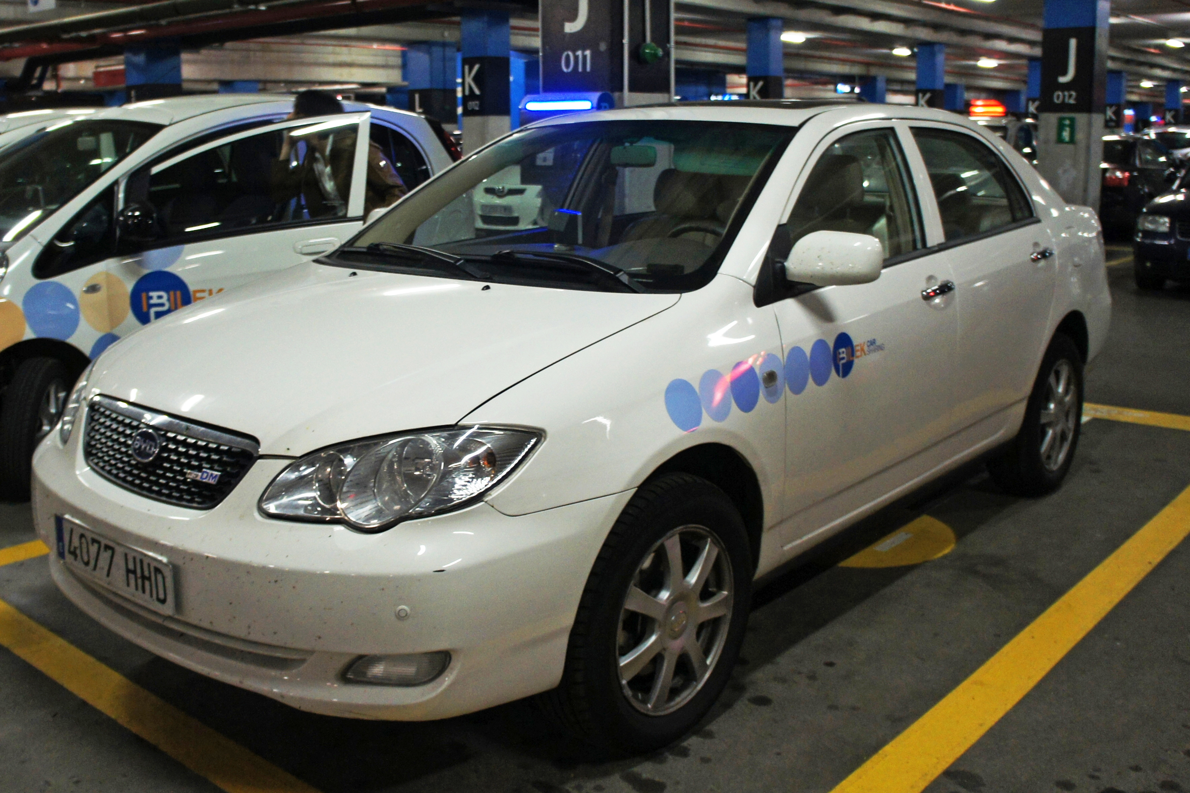 BYD F3DM plug-in hybrid in Bilbao, Spain